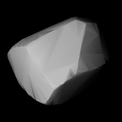 3D convex shape model of 1082 Pirola, computed using light curve inversion techniques. J. Hanuš, J. Ďurech, M. Brož, B. D. Warner (June 2011). "A study of asteroid pole-latitude distribution based on an extended set of shape models derived by the lightcurve inversion method". Astronomy and Astrophysics 530: A134. ISSN 0004-6361. arXiv